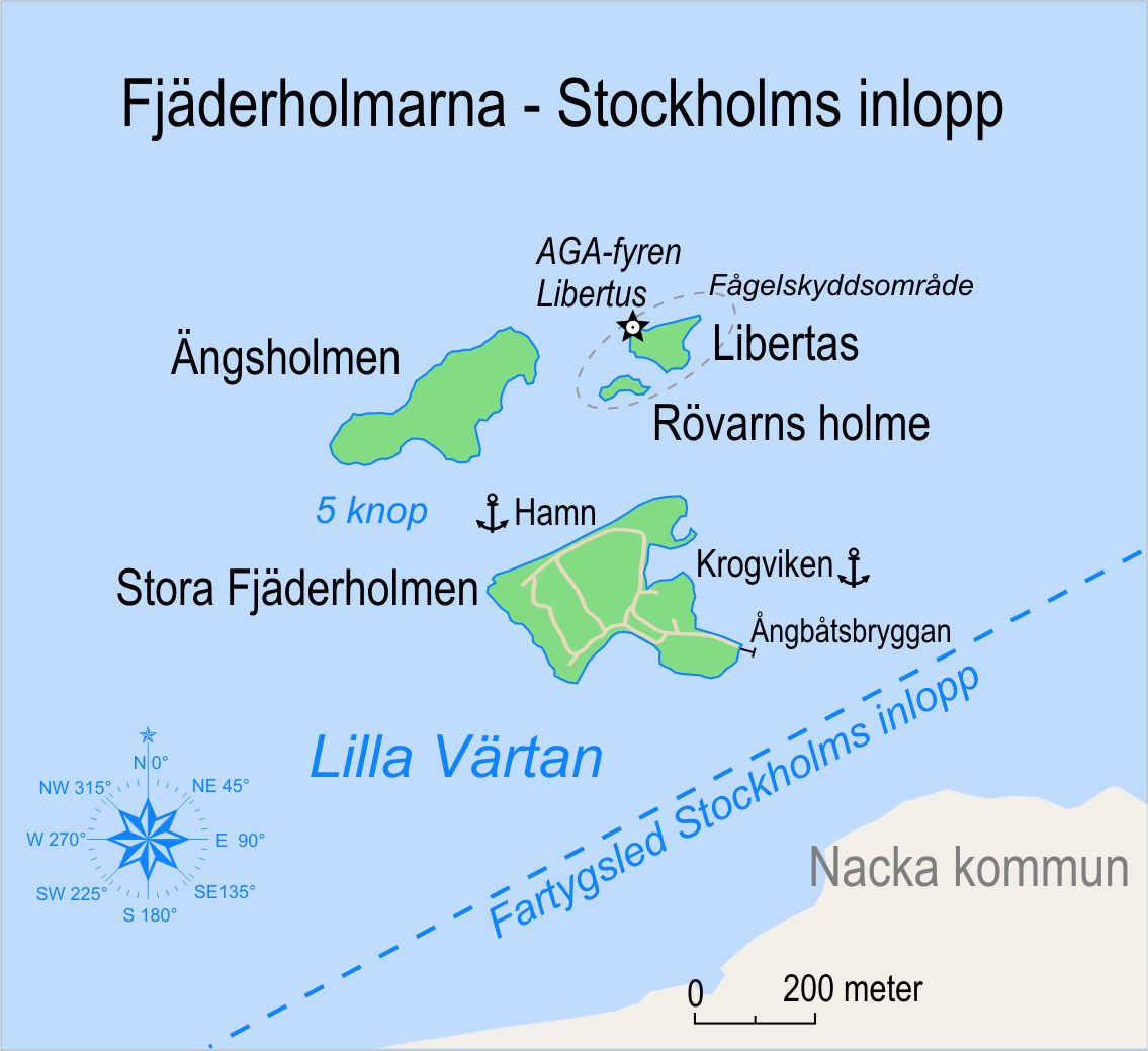 General map covering Fjäderholmarna outside Stockholm, Sweden. The group of islands, four large islands, covered by the name Fjäderholmarna belongs to Lidingö Municipality. Compared with original source, additional map information has been added, such as names and estimated trails for walking etc.